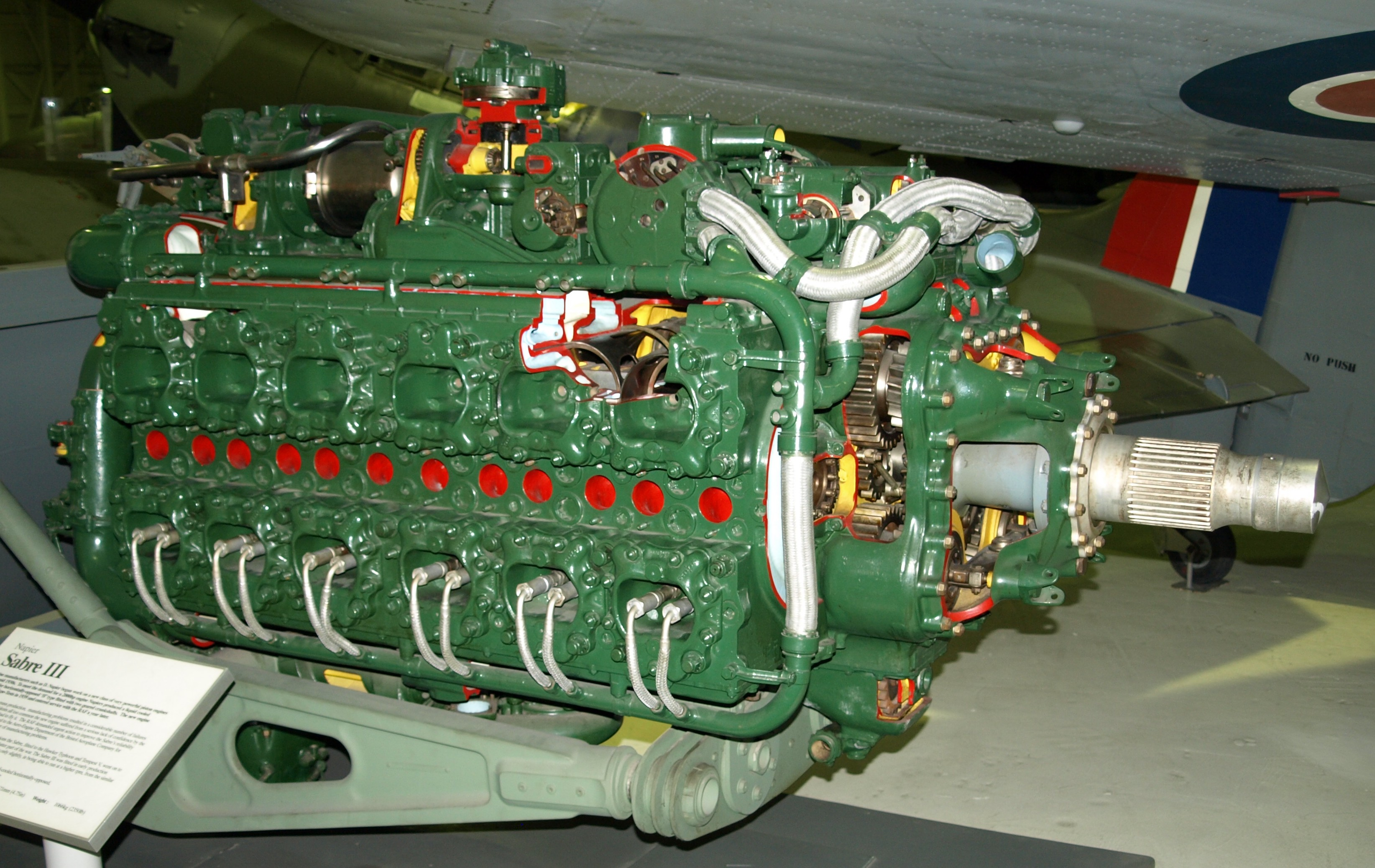 Napier Sabre III aero engine at the Royal Air Force Museum, London.